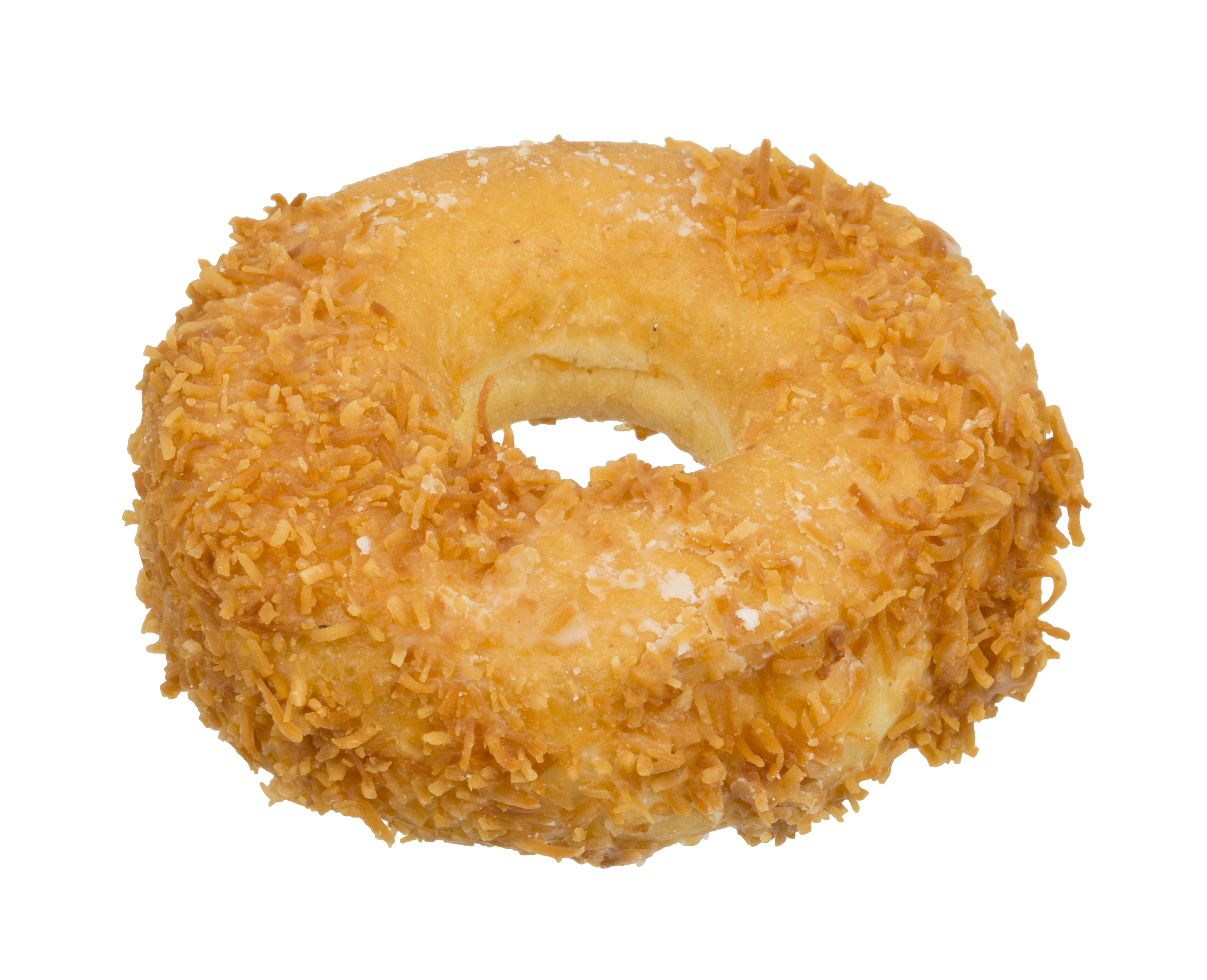 A toasted coconut donut from Peter Pan Donut & Pastry Shop (Peter Pan Bakery) in Brooklyn, NY at 727 Manhattan Ave.